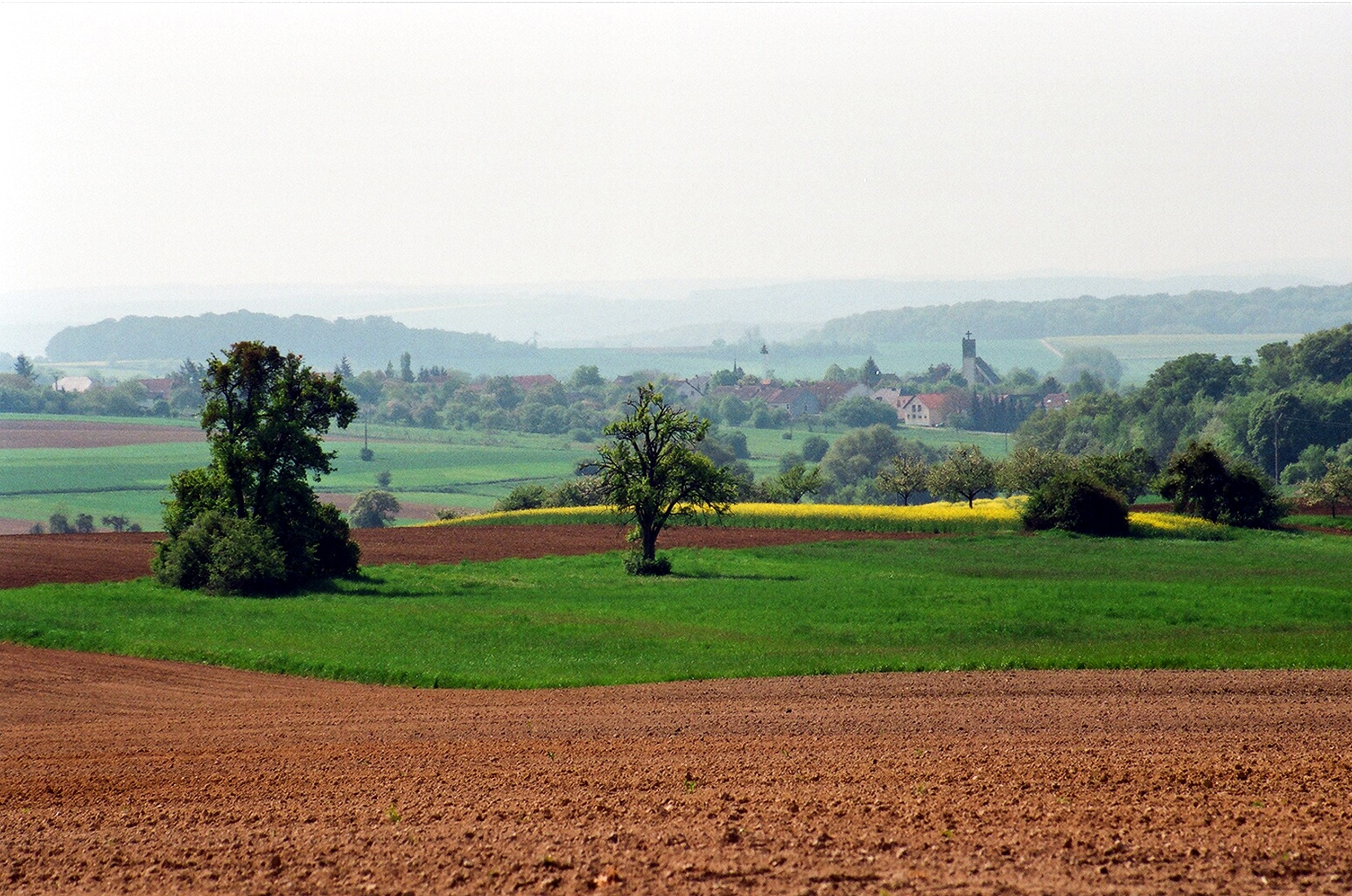 Oberesch (Rehlingen-Siersburg), view to the village